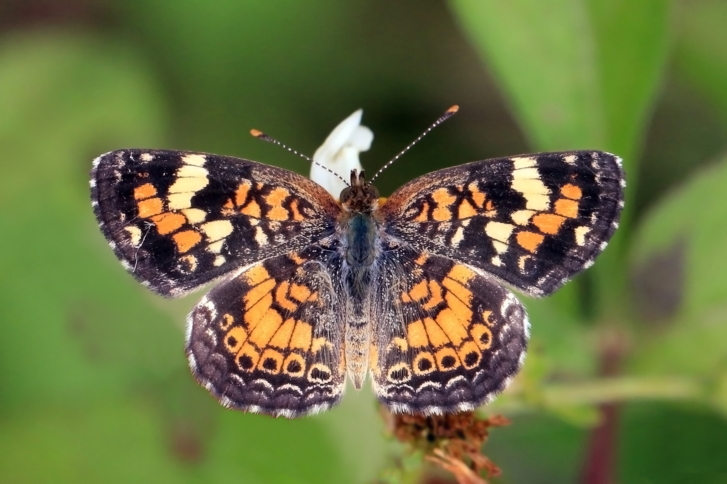 Crescent spot (Phyciodes phaon), Grand Cayman